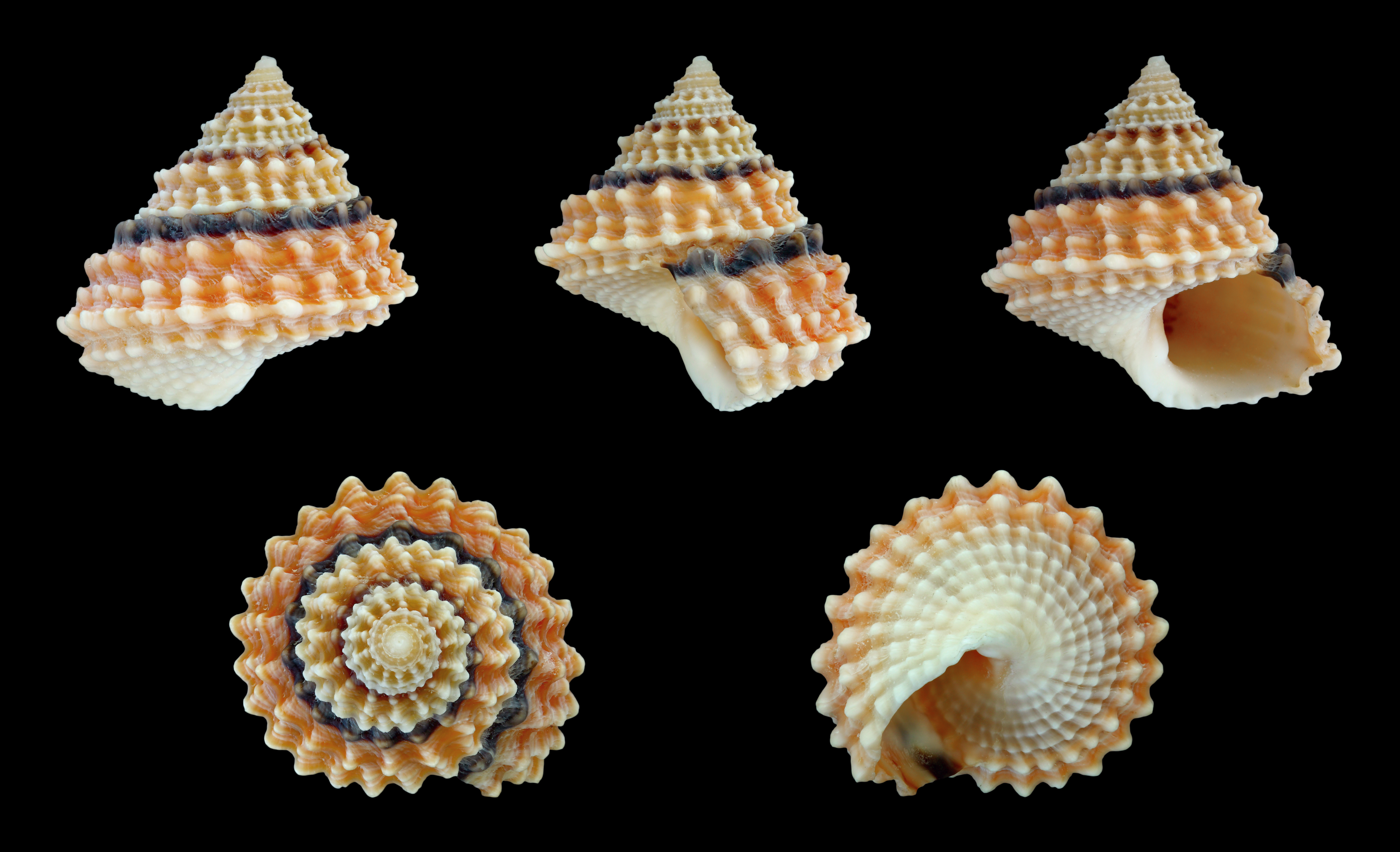 Beaded Prickly Winkle; Diameter 2.0 cm; Originating from the Philippines; Shell of own collection, therefore not geocoded.